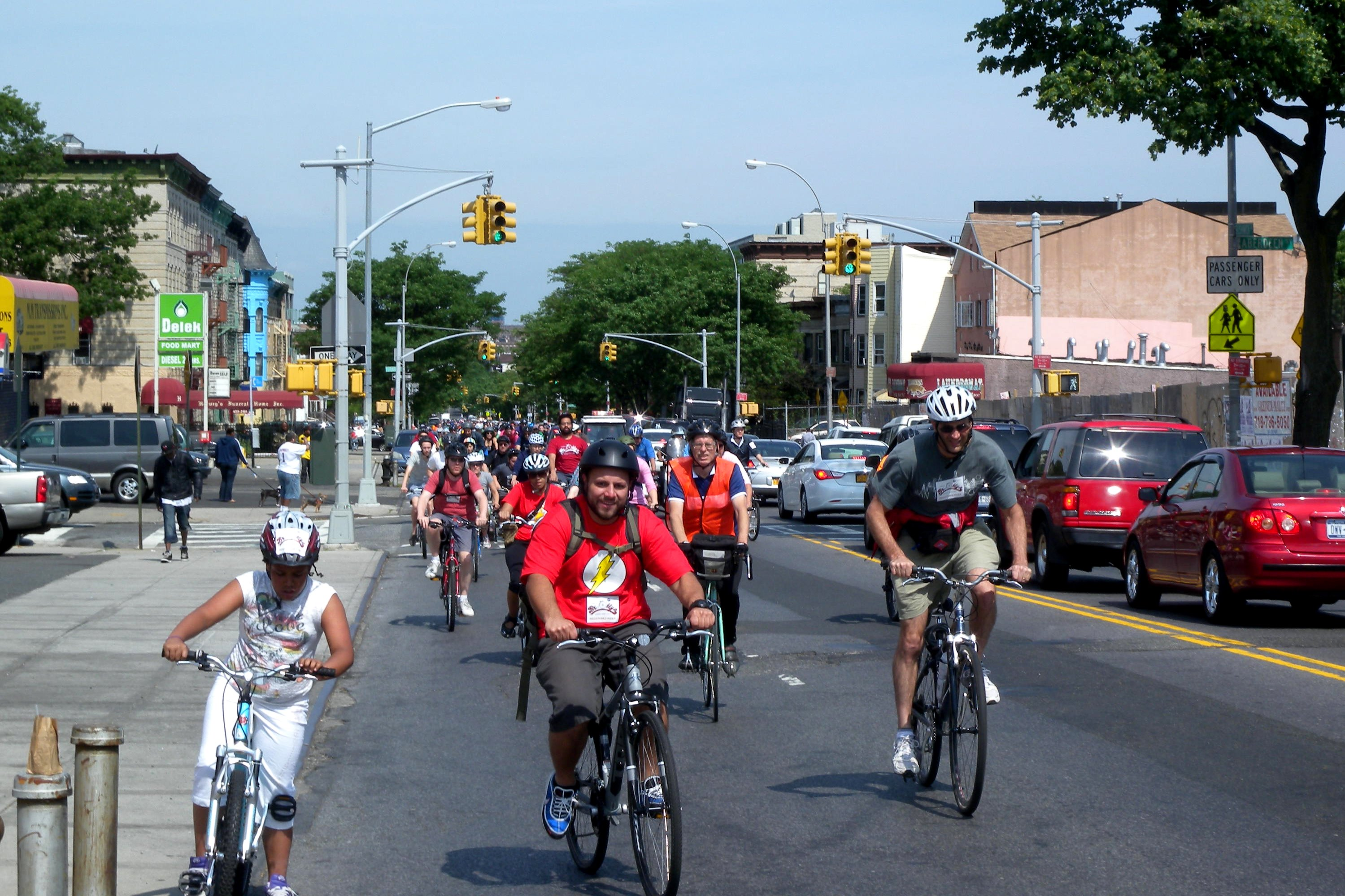 Looking northwest on Bushwick Avenue as Tour de Brooklyn approaches Aberdeen Street on a sunny morning.